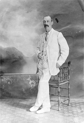 Octavius Laing Hicks was a prominent citizen of Humber Bay, Etobicoke Township, Ontario. He was best known as a boat builder and contractor.